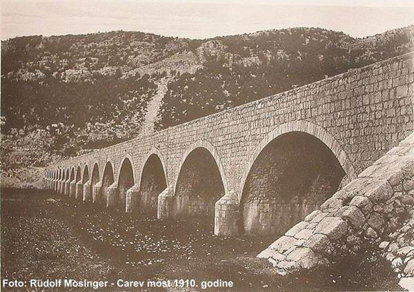 Carev most near Niksic, Montenegro in 1910s